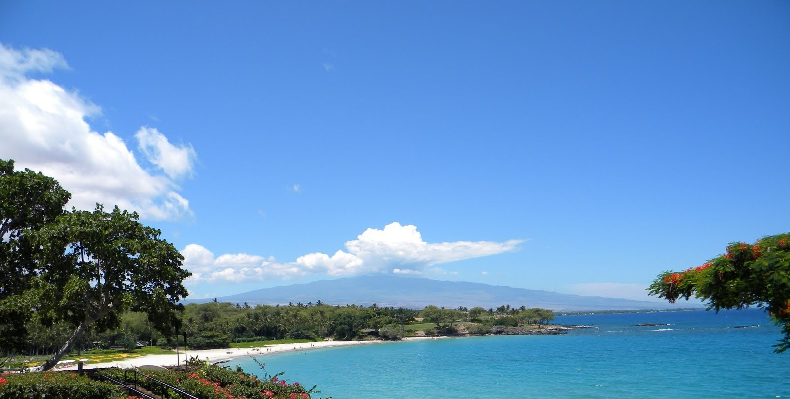 Mauna Kea Beach (Kauna'oa Beach) on the Big Island of Hawai'i